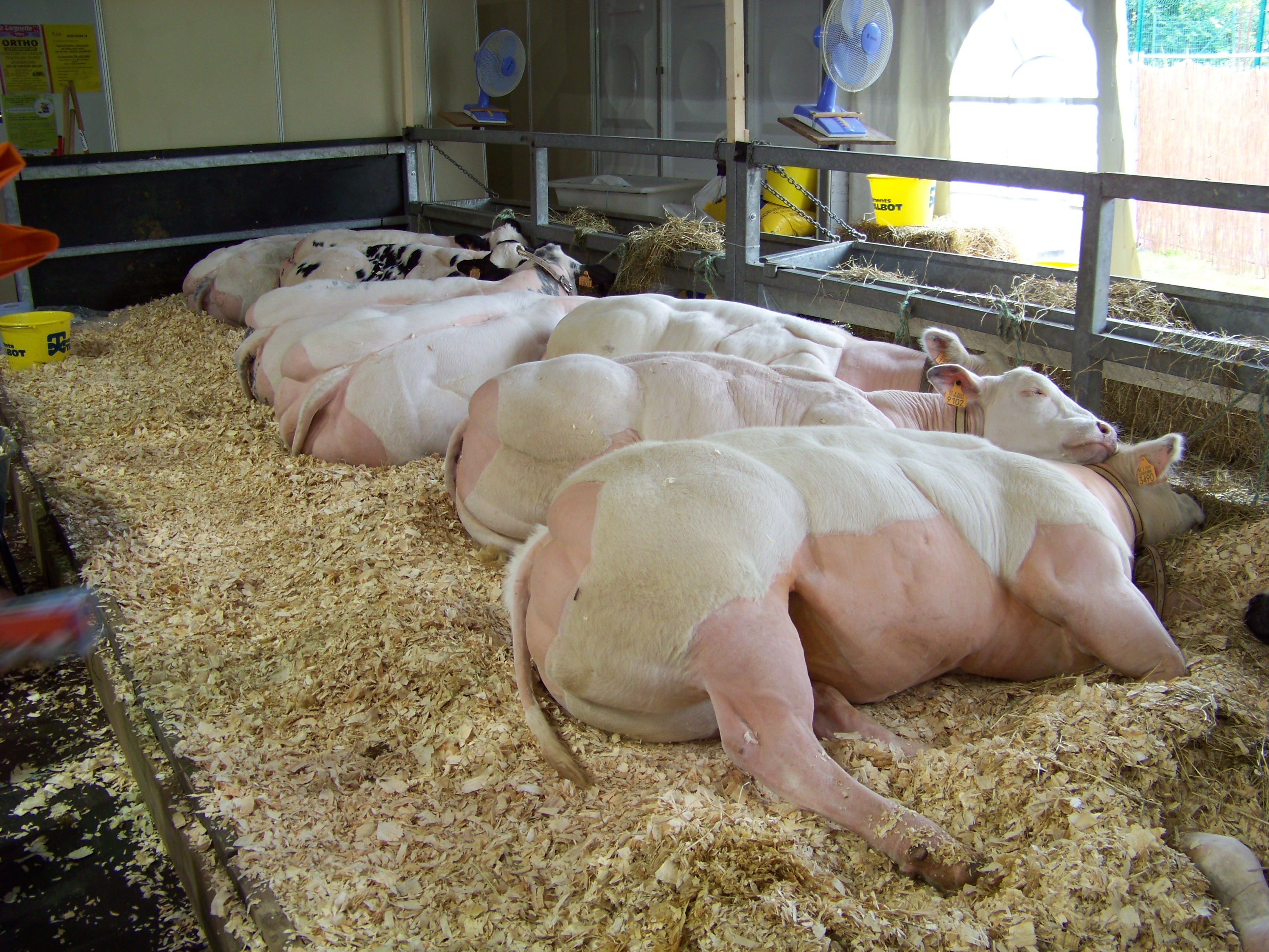 Belgian Blue cattle at Foire agricole de Libramont 2008